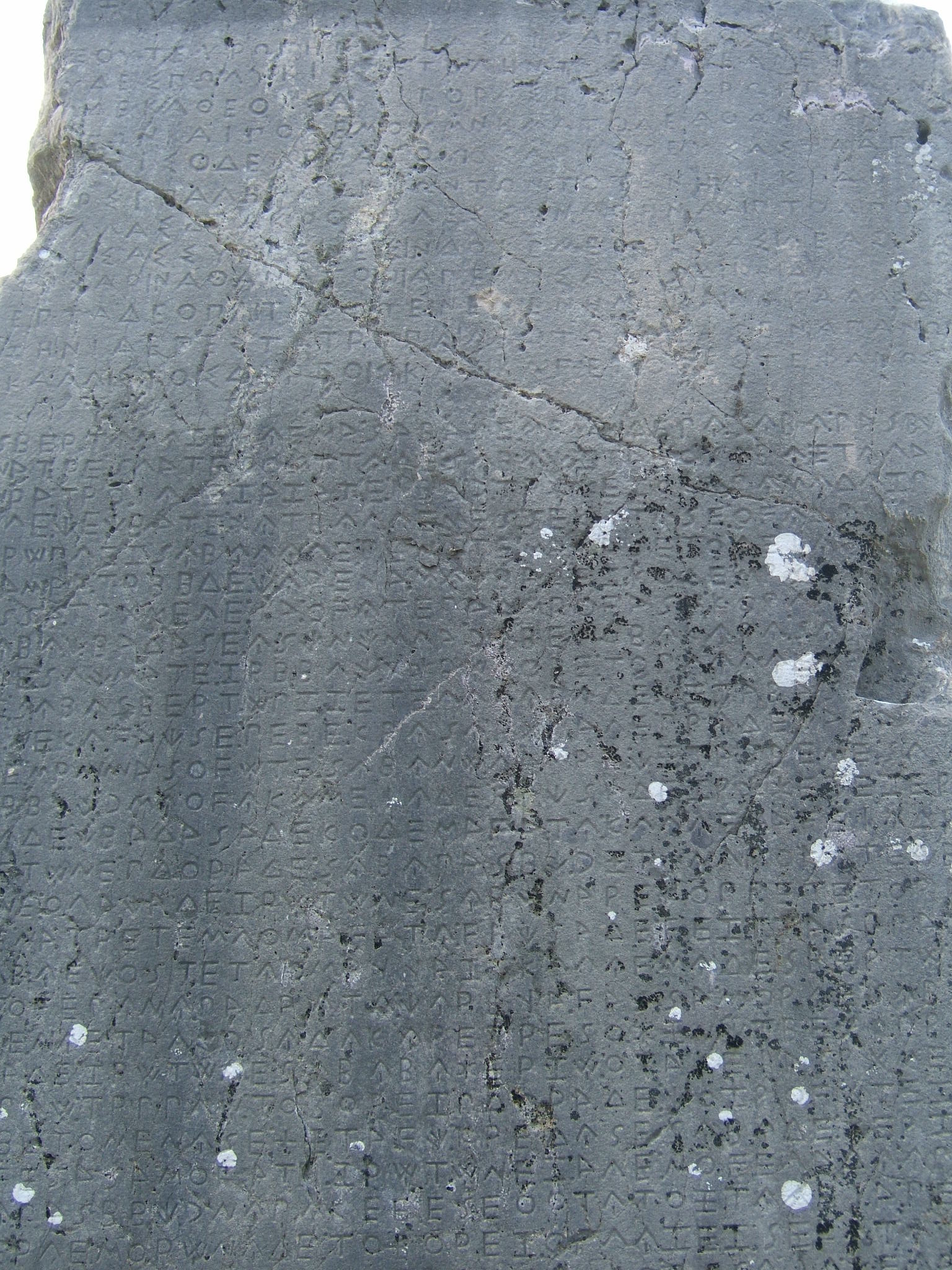 The north side of the Xanthian Obelisk, showing twelve lines of Greek (towards the top where the stone has been cleaned), and Lycian below.